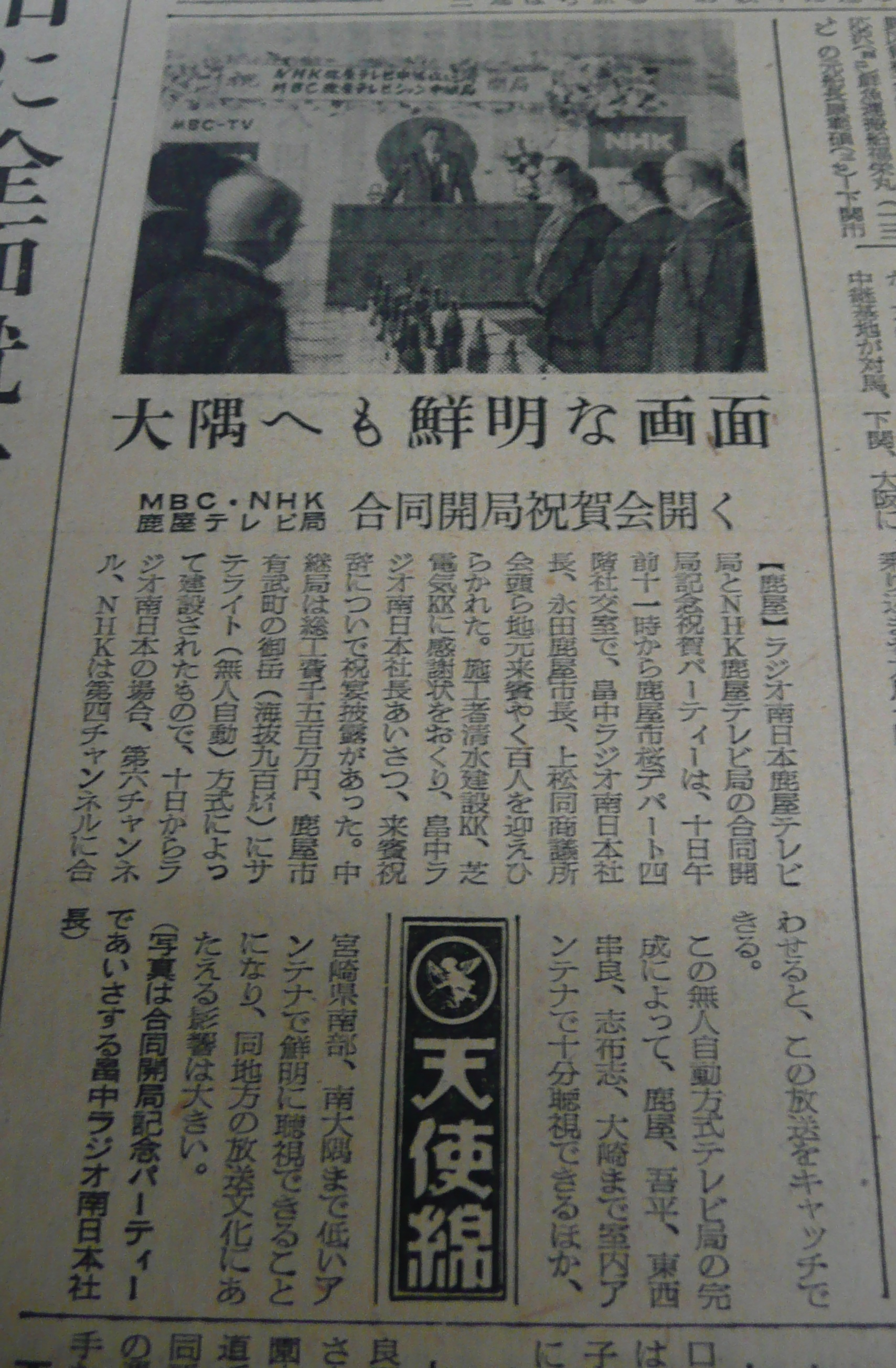 Lanching Ceremony of Kanoya Analog TV (Minami-nippon Shimbun - November 11, 1960)